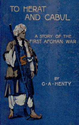 This is a low-resolution scanned image of the cover of the 1902 first edition of To Herat and Cabul, A Story of the First Afghan War by G.A. Henty and illustrations by Charles A. Sheldon, published by Blackie and Son Ltd., London.